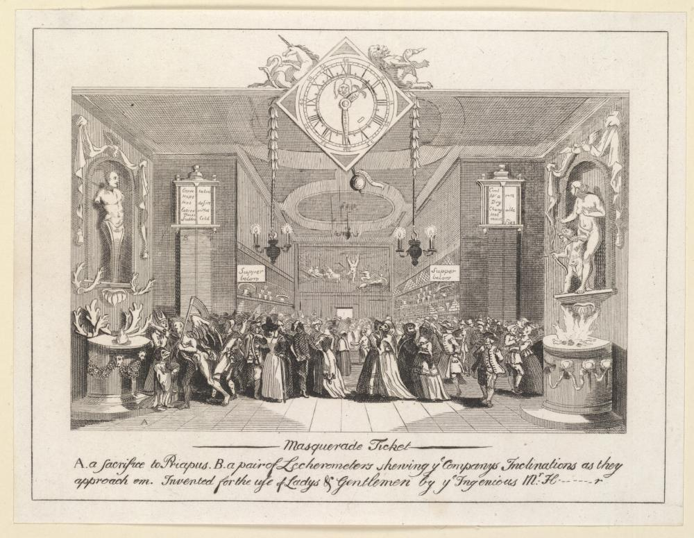 William Hogarth: "The Small Masquerade Ticket" represents a large company eagerly pressing to the door of a Masquerade, we have here the interior of the room, crowded with a countless multitude of grotesque characters, celebrating the orgies of the place; which, in the references engraved under the original Print, are thus described: "A. a sacrifice to Priapus. B. a pair of Lecherometors, shewing ye company's inclinations as they approach 'em. Invented for the use of ladys and gentlemen by ye ingenious Mr. H--r" [Heidegger]. Full description and analysis